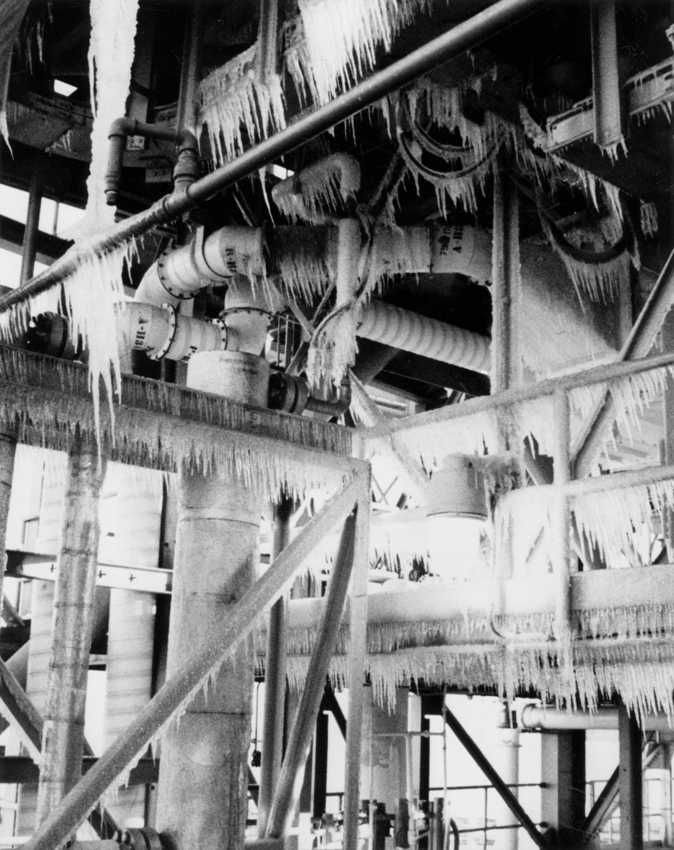 On January 28, 1986, the Space Shuttle Challenger and her seven-member crew were lost when a ruptured O-ring in the right Solid Rocket Booster caused an explosion soon after launch. On the day of Space Shuttle Challenger's launch, icicles draped the Kennedy Space Center. The unusually cold weather, beyond the tolerances for which the rubber seals were approved, most likely caused the O-ring failure.